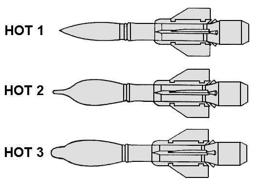 Profile of the tree versions of the euromissile HOT Profil des trois versions de l'Euromissile HOT